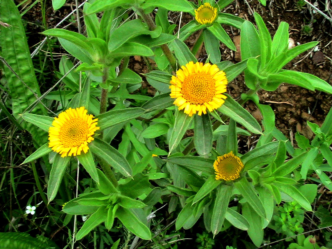 Pallenis spinosa. In Torà (Segarra-Catalunya). To 570 m. altitude